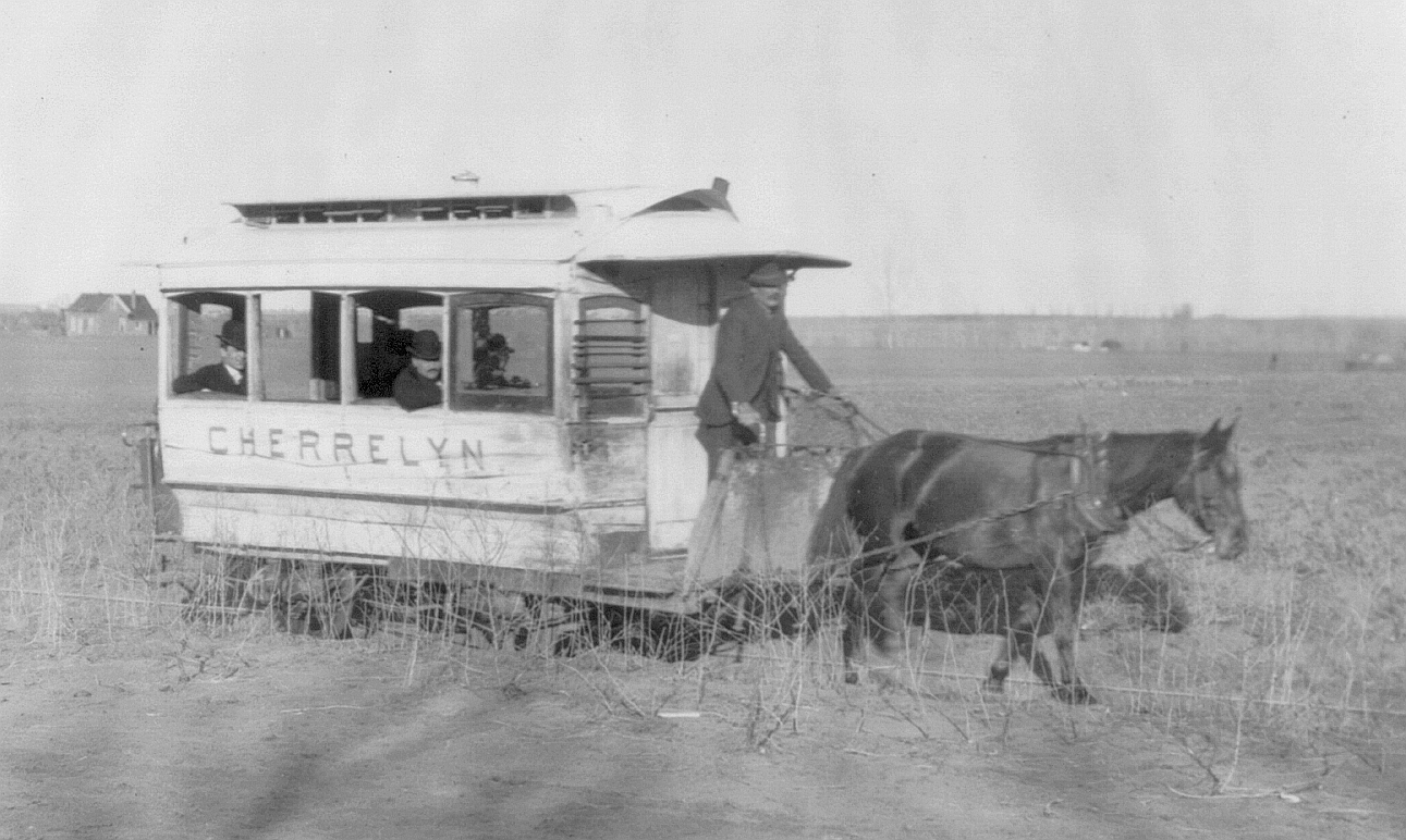 CHERRELYN, a horsecar on country road outside Denver, Colo.